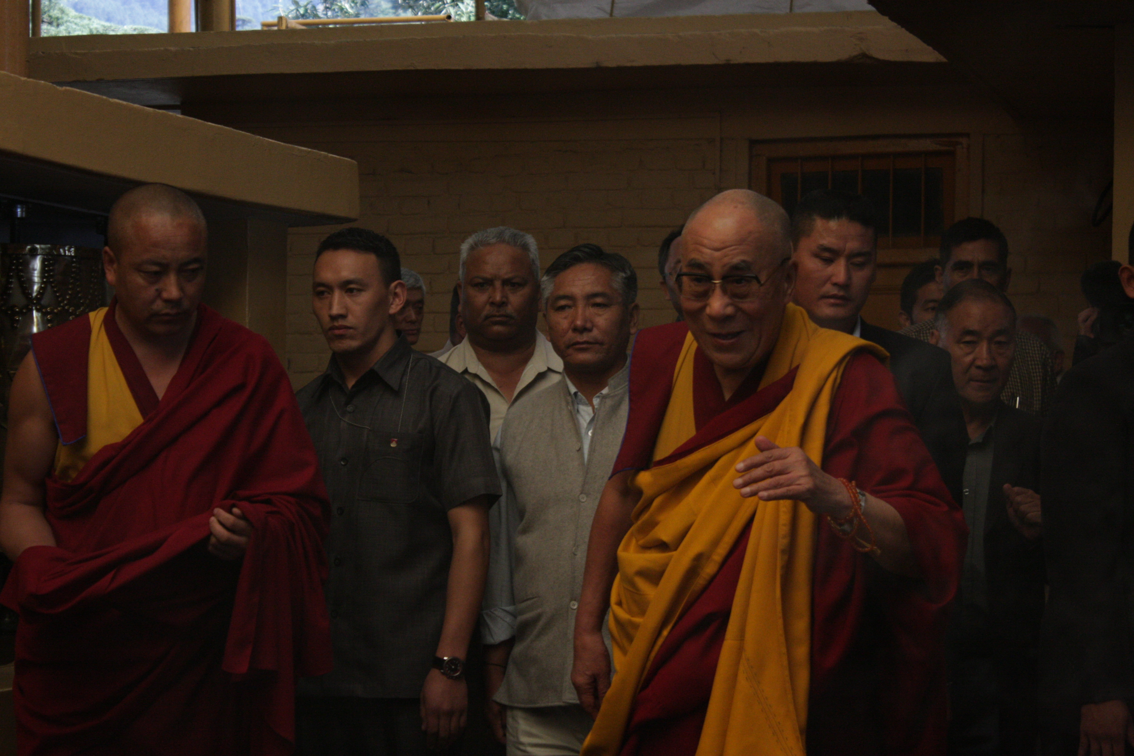 His Holiness the Dalai Lama XIV, Dharamsala, India